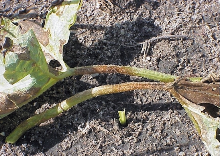 Symptoms of the plant pathogen Didymella bryoniae on watermelon